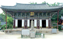 Michalak, A. E., public domain